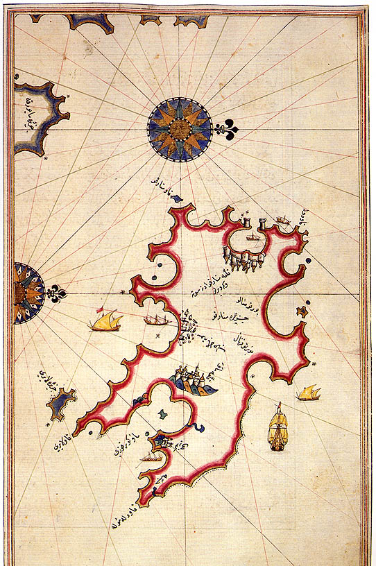 Minorca in Spain on the Kitab-Ä± Bahriye (Book of Navigation) of Piri Reis